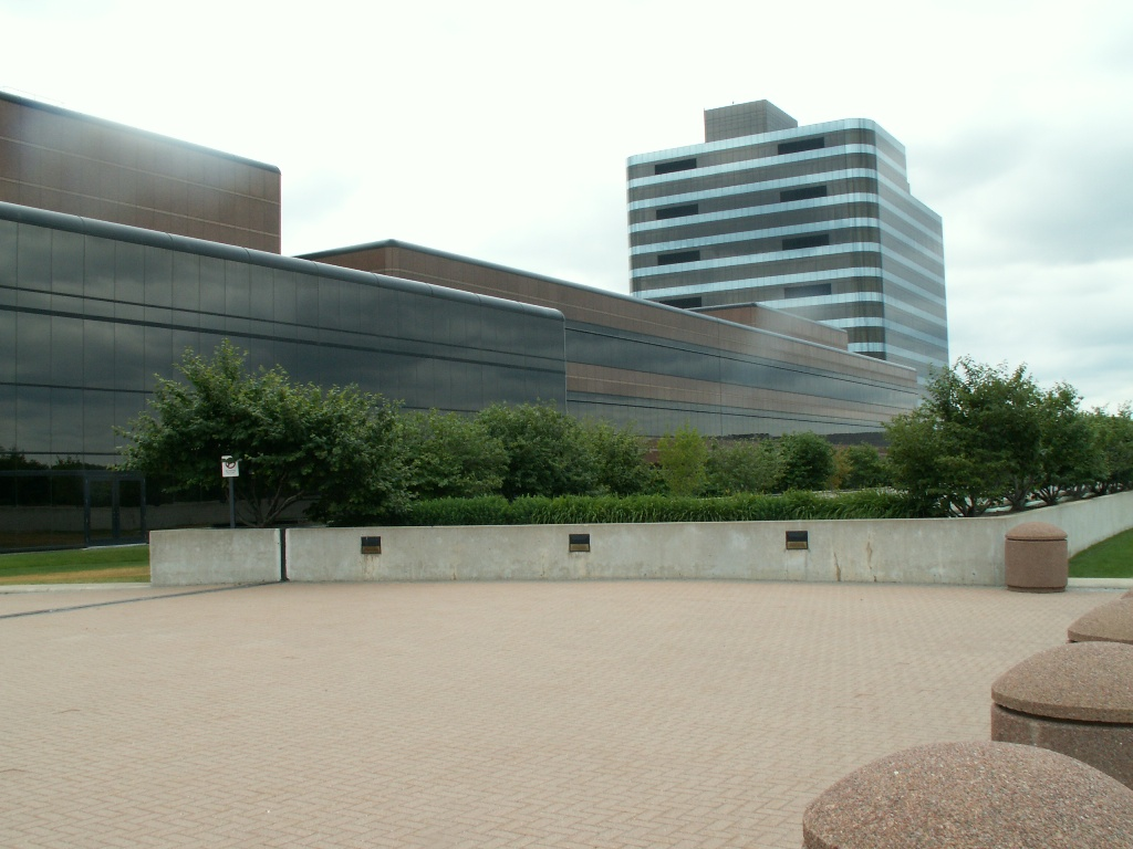 Chrysler Headquarters in Auburn Hills